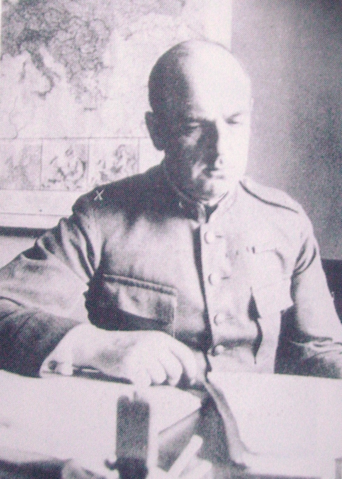 Picture of Axel Rappe the younger, Swedish officer (photographer unknown)